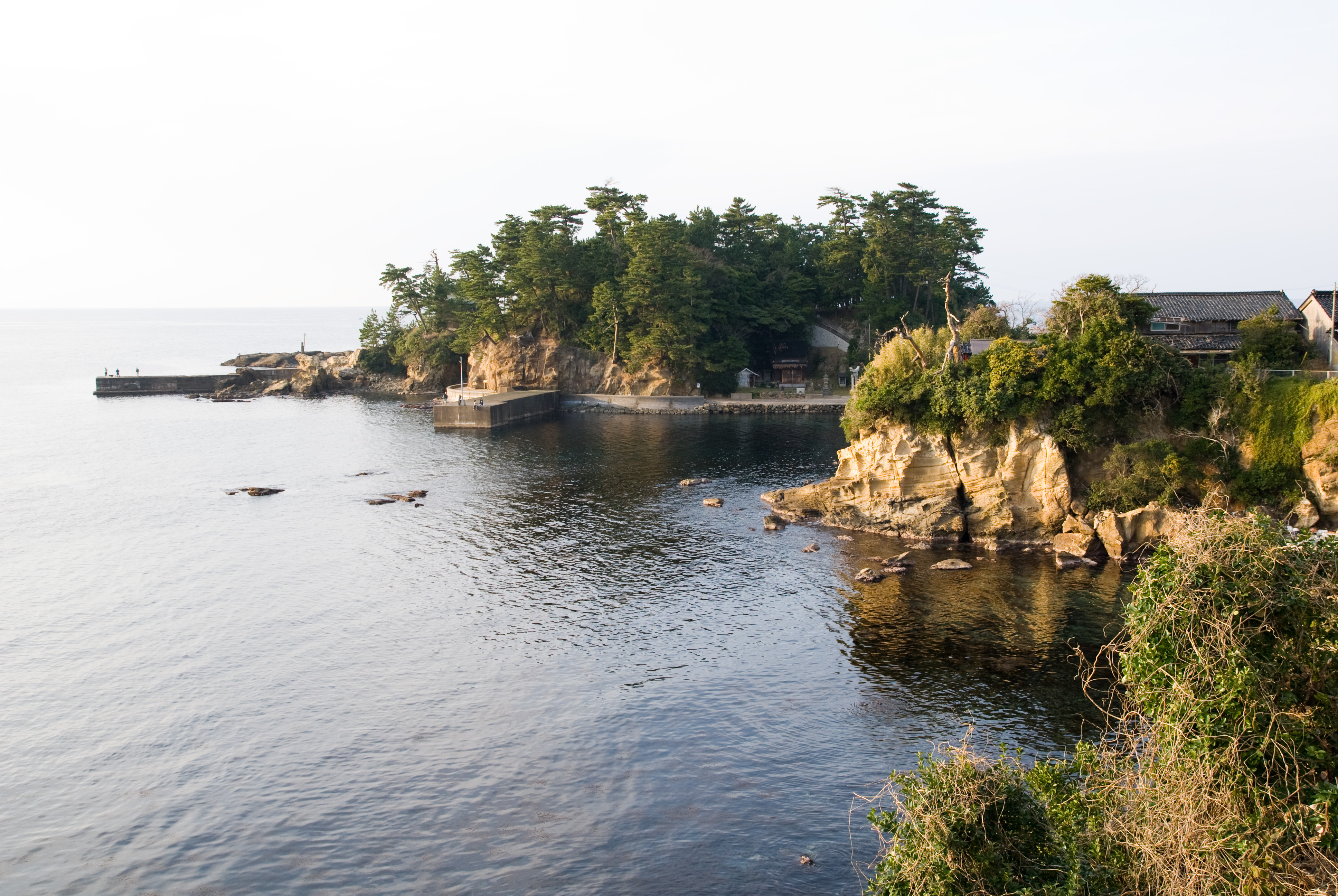 Shiroshima in Kyotango, Kyoto Prefecture.